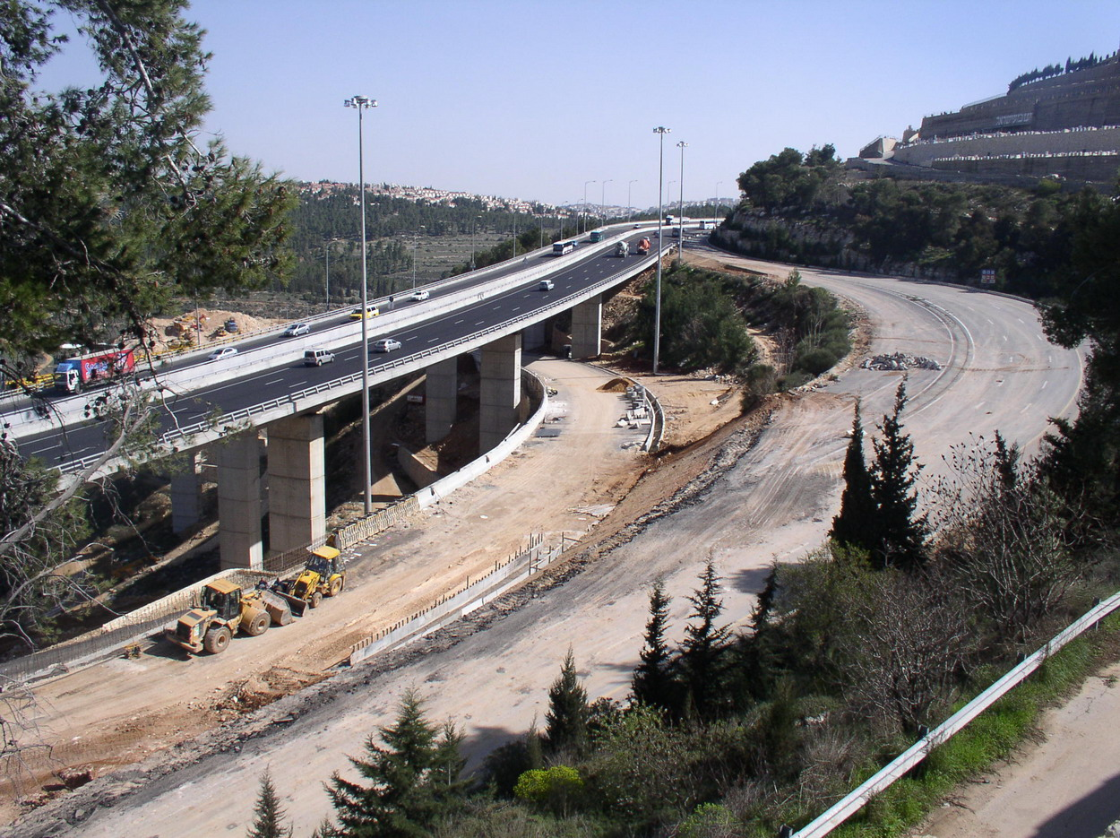 The interchange between Highway 1 and Jerusalem Route 9 under construction (February 22, 2007). The bridge shown was recently opened, and it carries Highway 1 towards Jerusalem. The exit to Route 9 is still under construction, and can be seen to the right of the bridge. The old section of Highway 1 can be seen to the right of the exit.